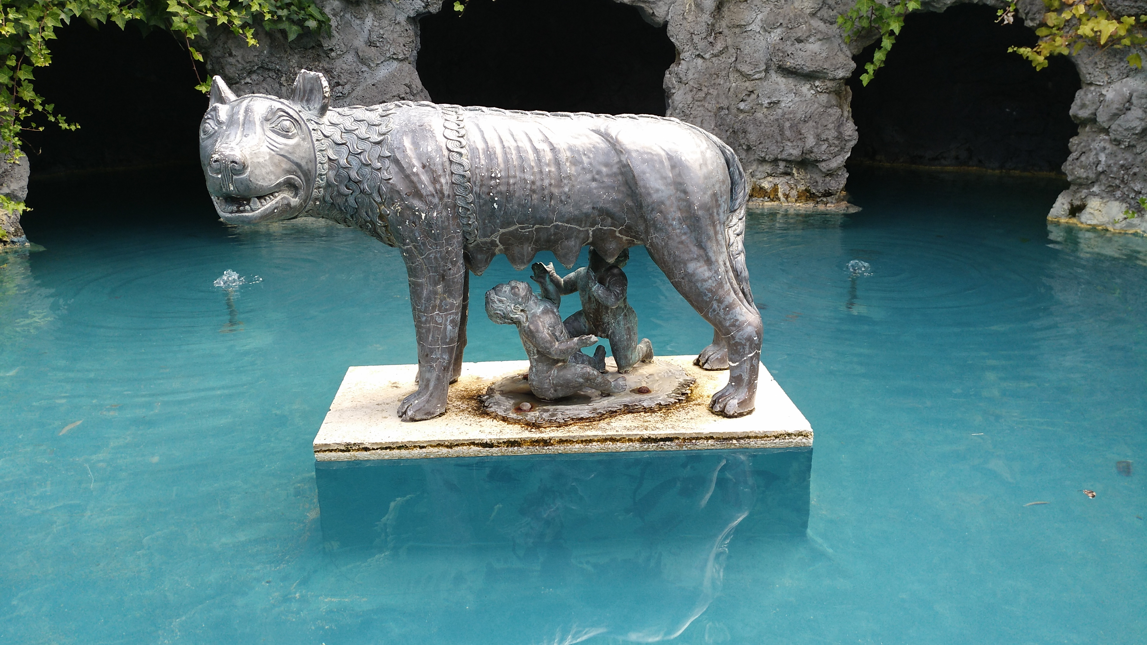 Capitoline Wolf statue in Hamilton Gardens, Hamilton, New Zealand